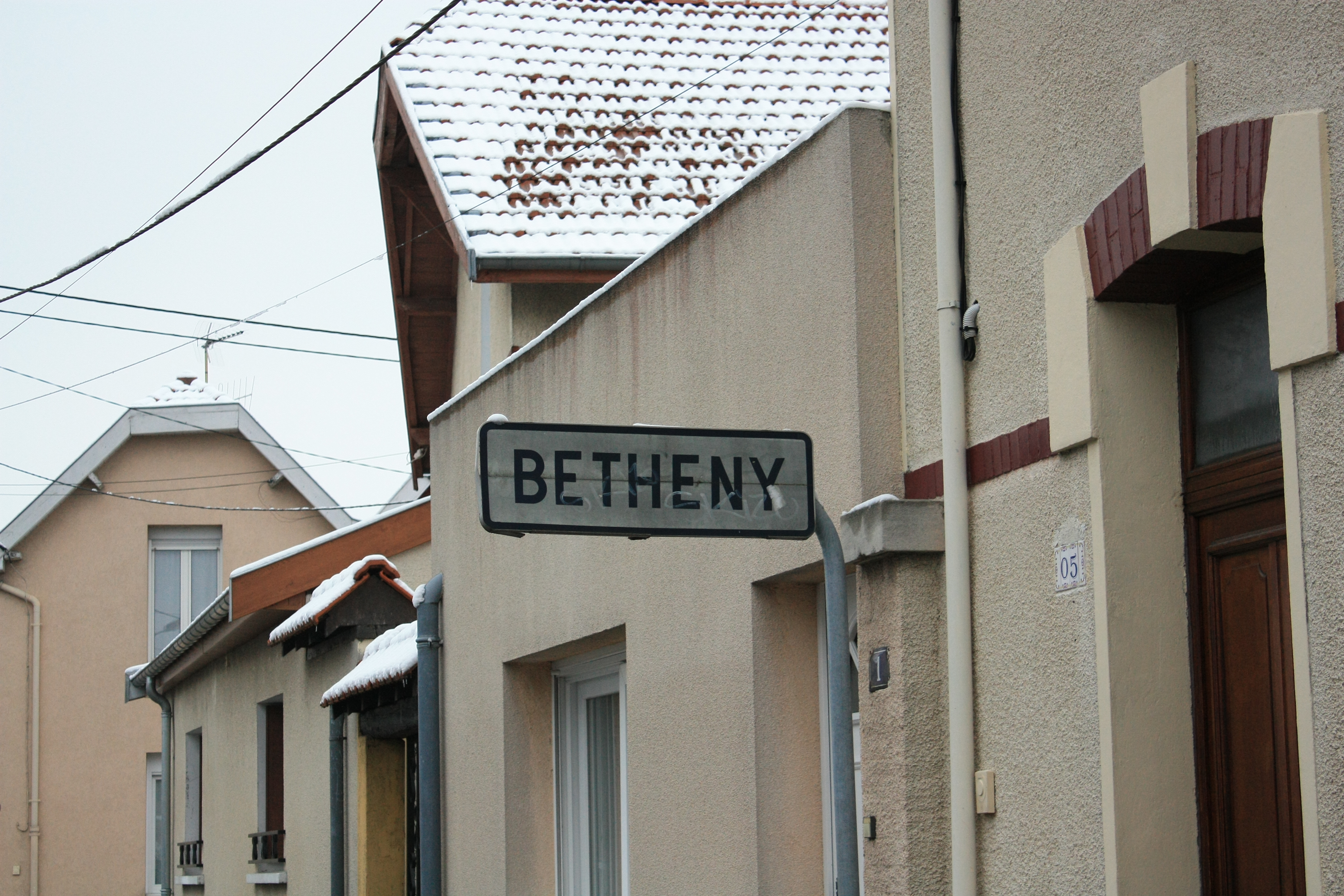 Border sign between Reims and Betheny